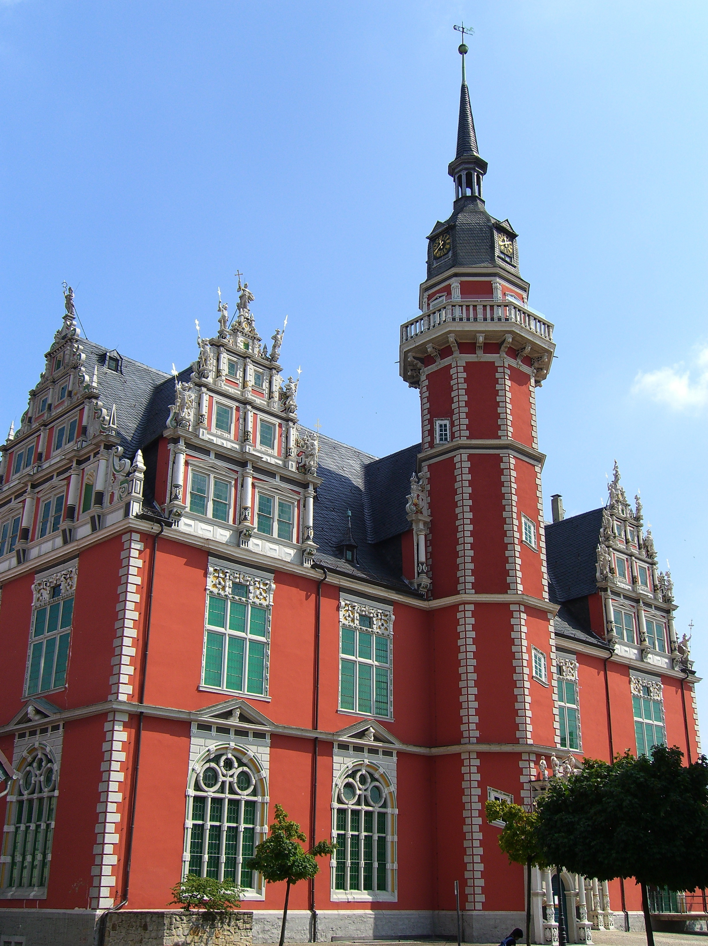 southern front and western gable of the Juleum in Helmstedt.